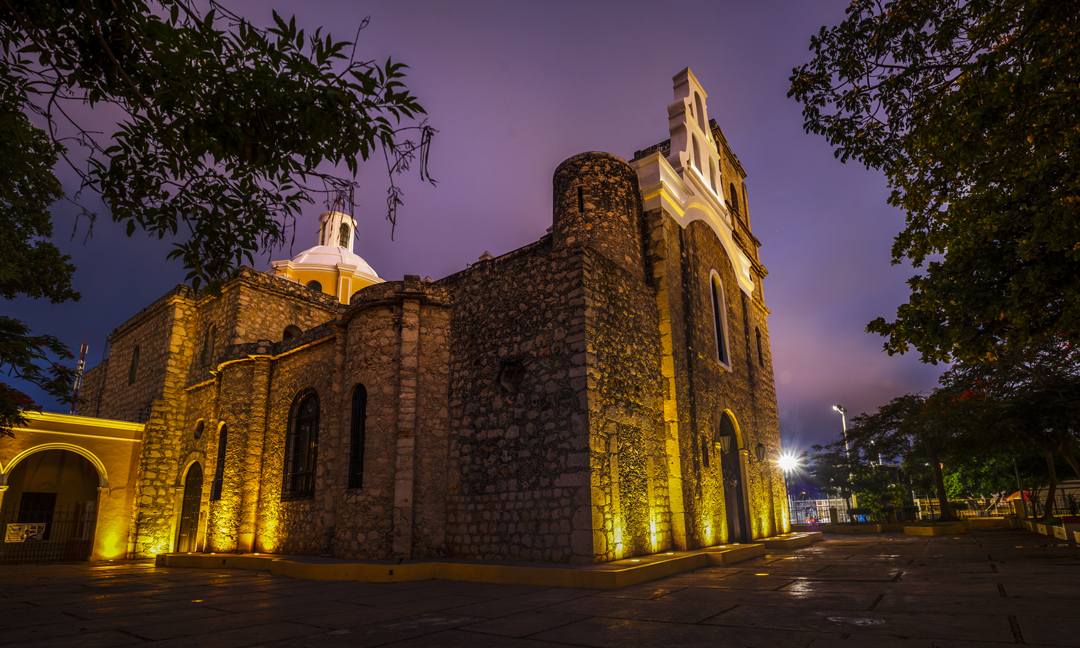 Parroquia de San Sebastián, 70th x 77th, Merida Yucatan, Mexico